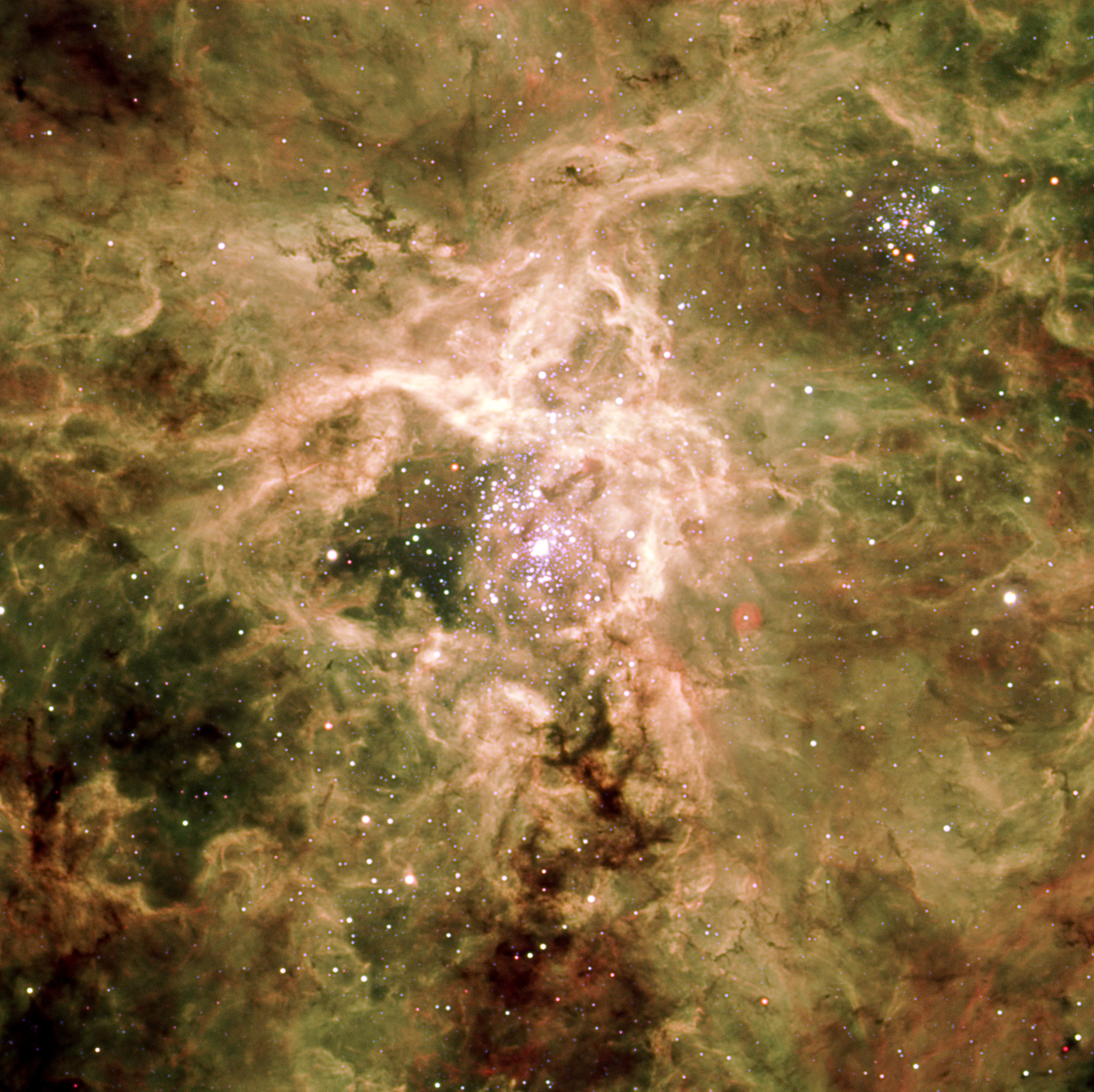 Three-color image of the Tarantula Nebula in the Large Magellanic Cloud. The image is based on observations made on 10 February 2002 and 22 March 2003 with the FORS1 multi-mode instrument on ESO's Very Large Telescope in three different narrow-band filters (centred on 485 nm, 503 nm, and 657 nm), for a total exposure time slightly above 3 minutes only. The data were extracted from the ESO Science Archive and processed by Henri Boffin (ESO). In the centre is star cluster R136, which in turn contains the compact cluster R136a as an unresolved blob here.